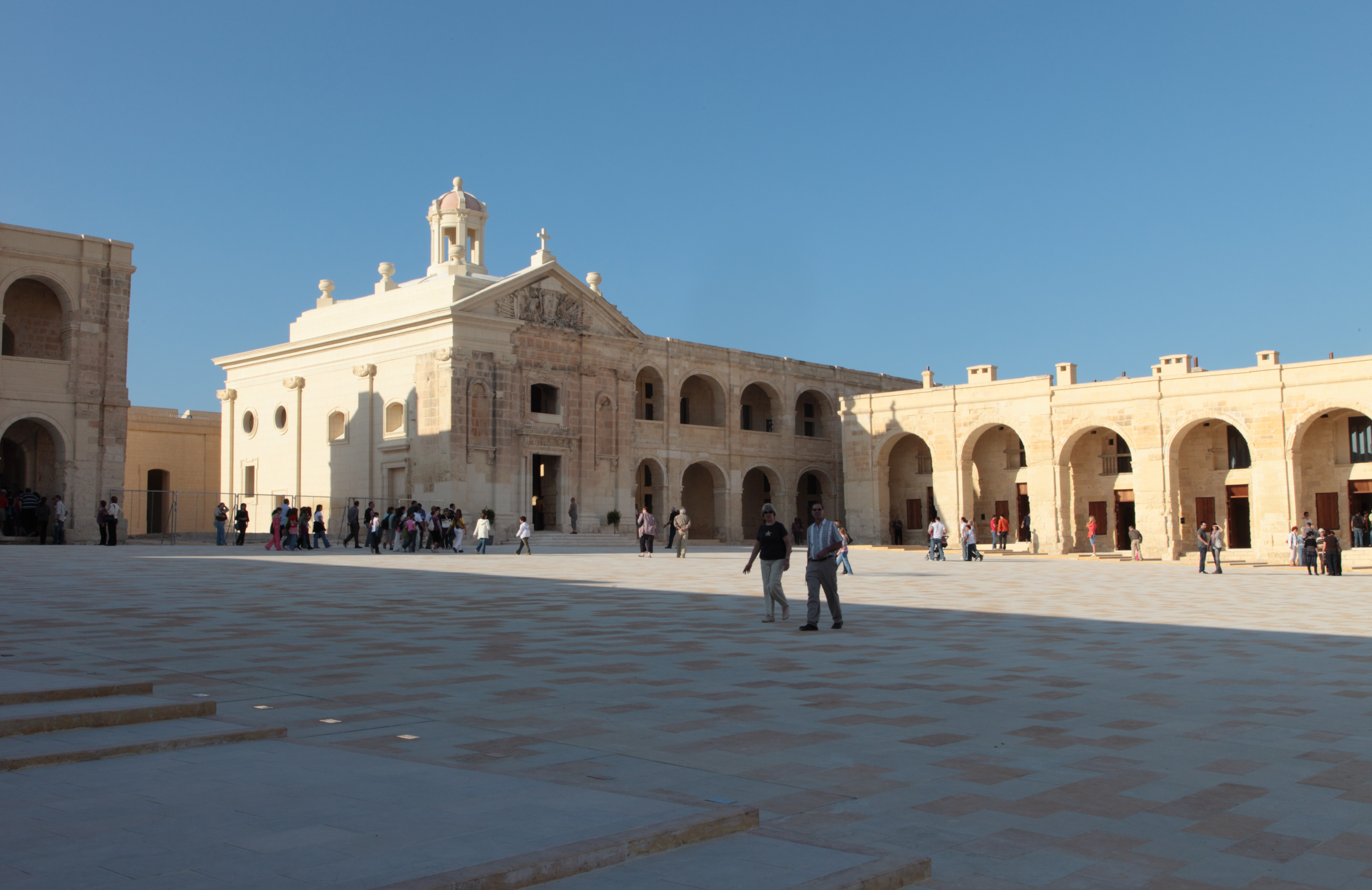 Malta, Manoel Island, Fort Manoel, square